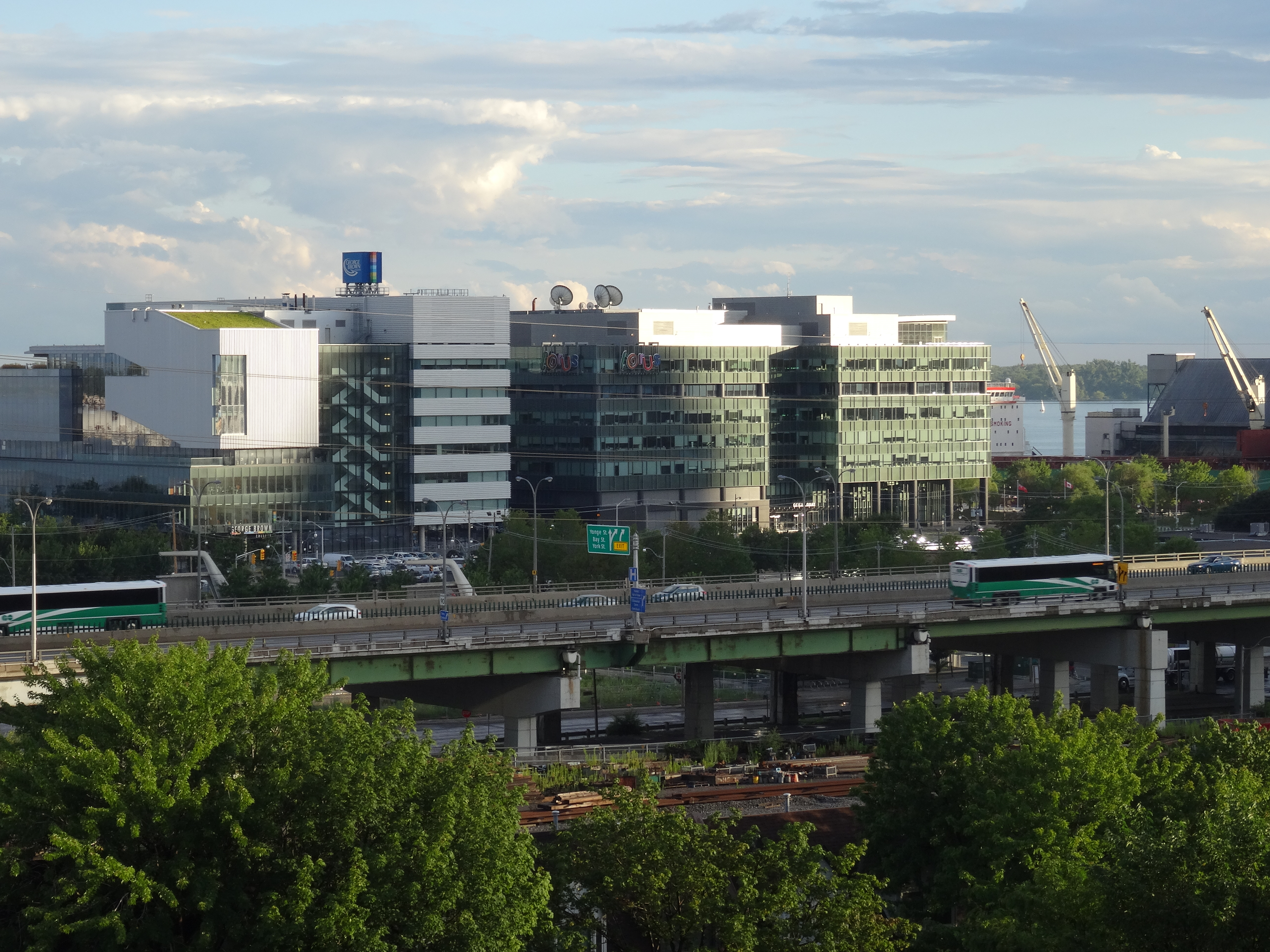 Sun sets on Corus Quay, 2015 08 04 (1).JPG